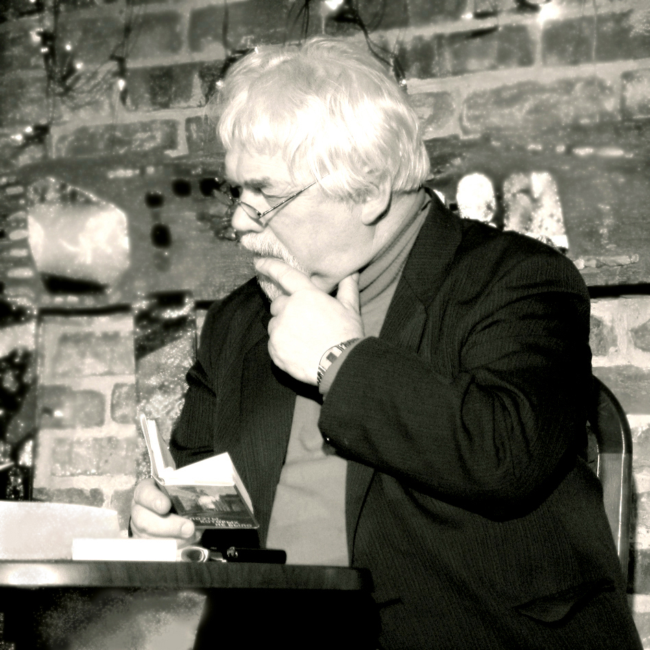 Ilya Fonyakov, 2006